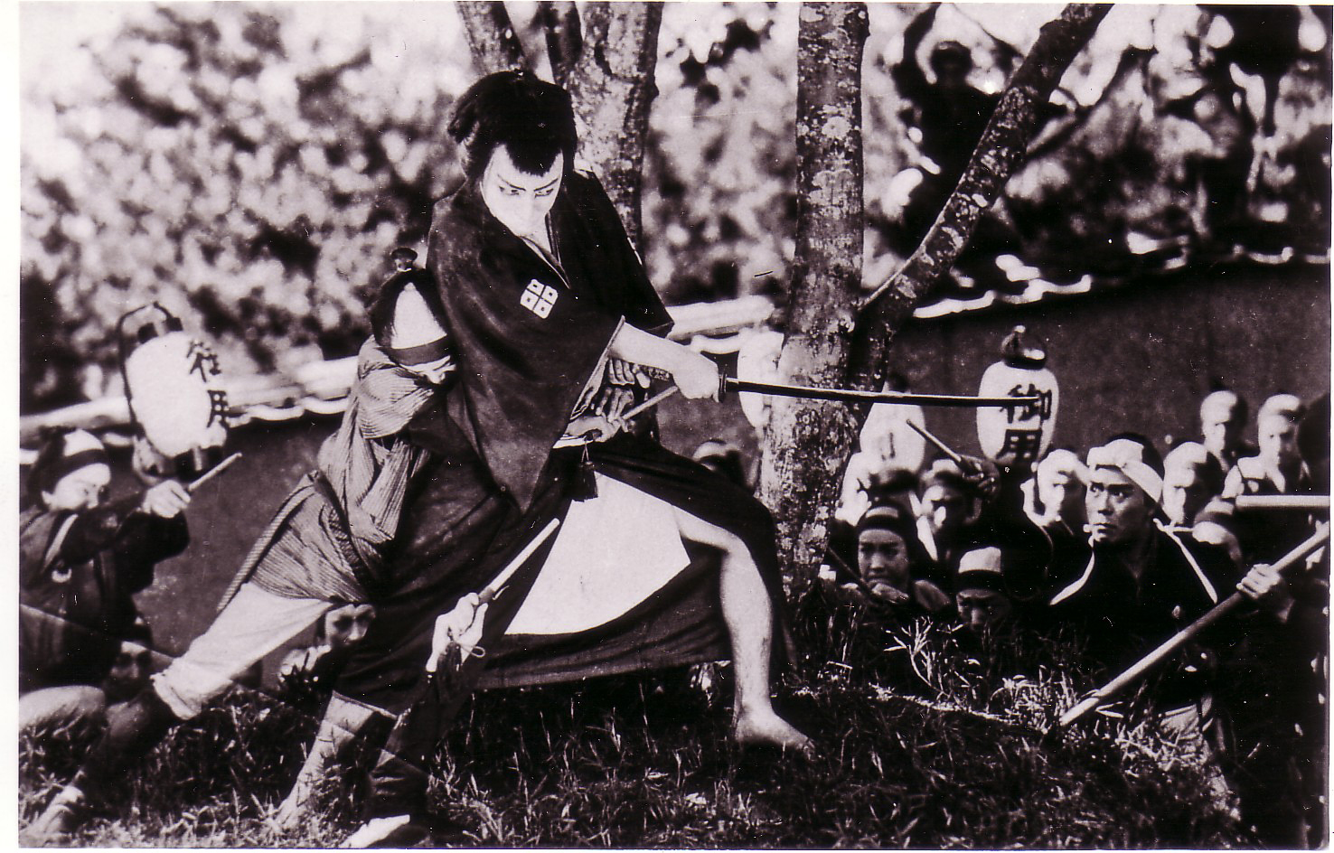 Orochi with the actor Tsumasaburō Bandō.